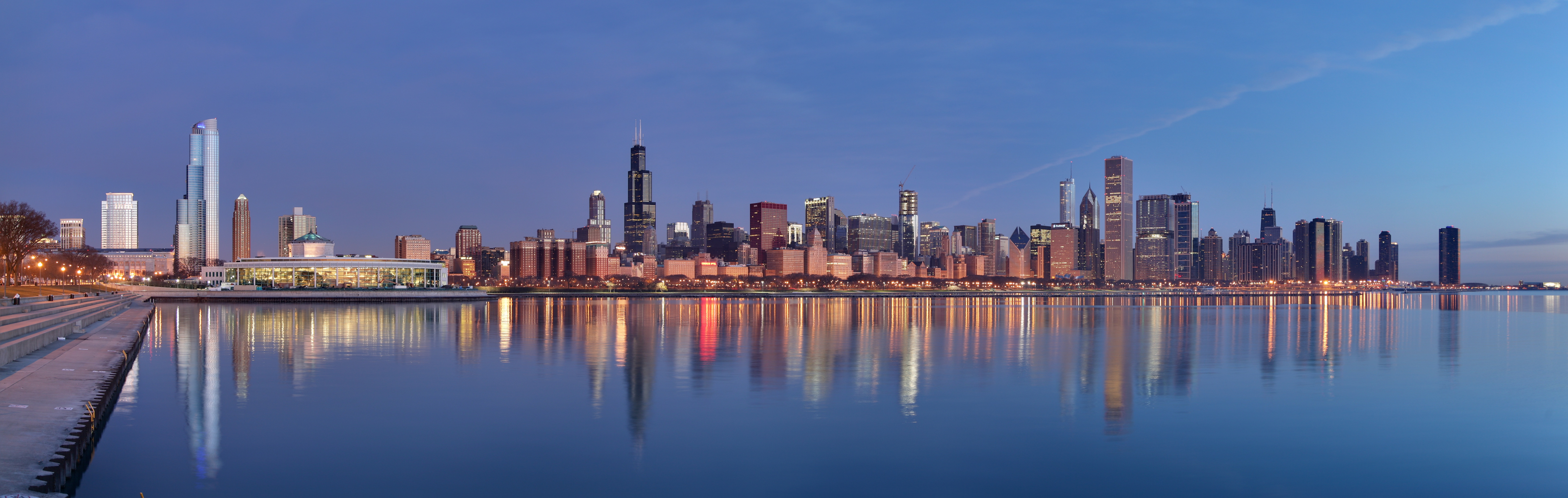 Chicago skyline at sunrise